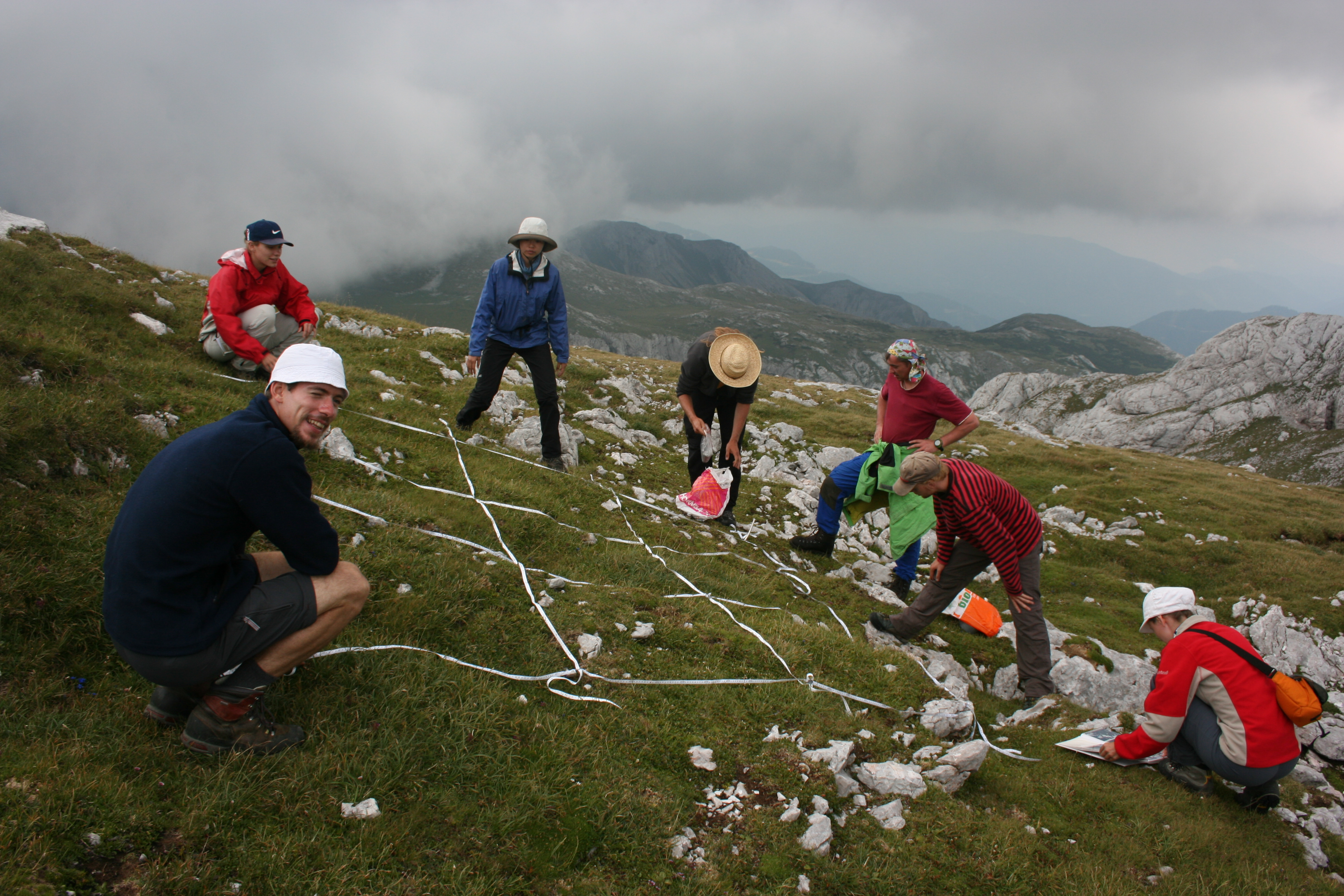 Gloria field work during the first re-survey campaign on Ghacktkogel, Hochschwab, NorthEast Alps